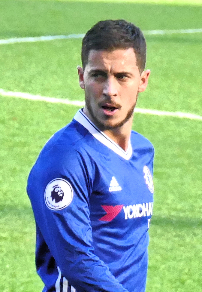 Eden Hazard, Stamford Bridge, December 2016